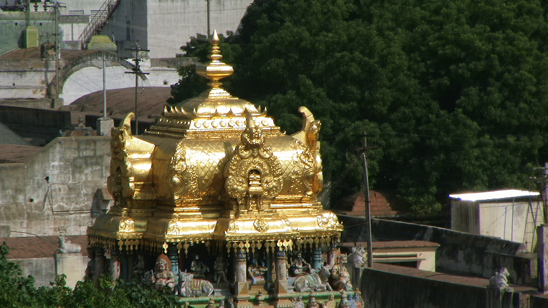 Golden tower (shikhara) of the Madurai Meenakshi temple